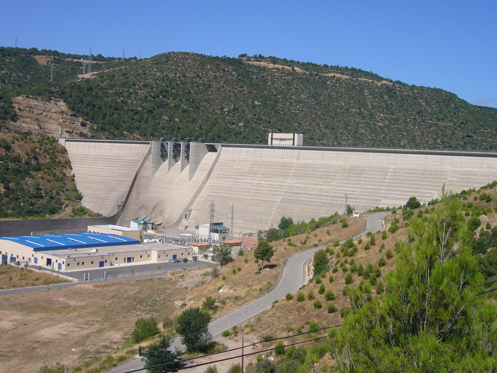 Presa del pantà de Rialb (Baronia de Rialb)